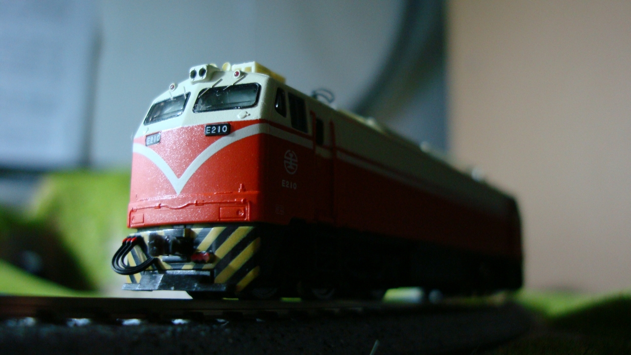 TRA E200 of Touch-Rail Models CO.,Ltd